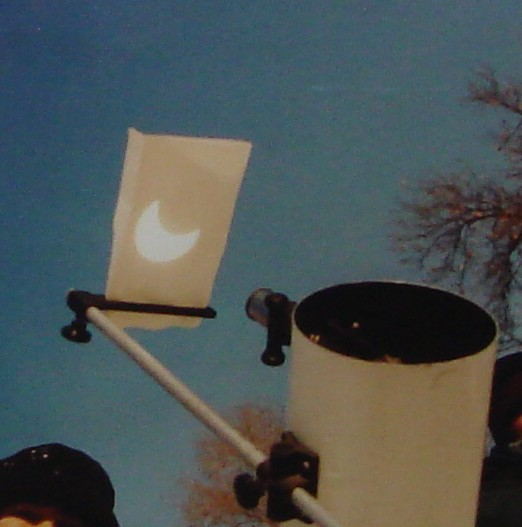 Solar eclipse of December 25, 2000 projection of partial eclipse from Minneapolis, Minnesota